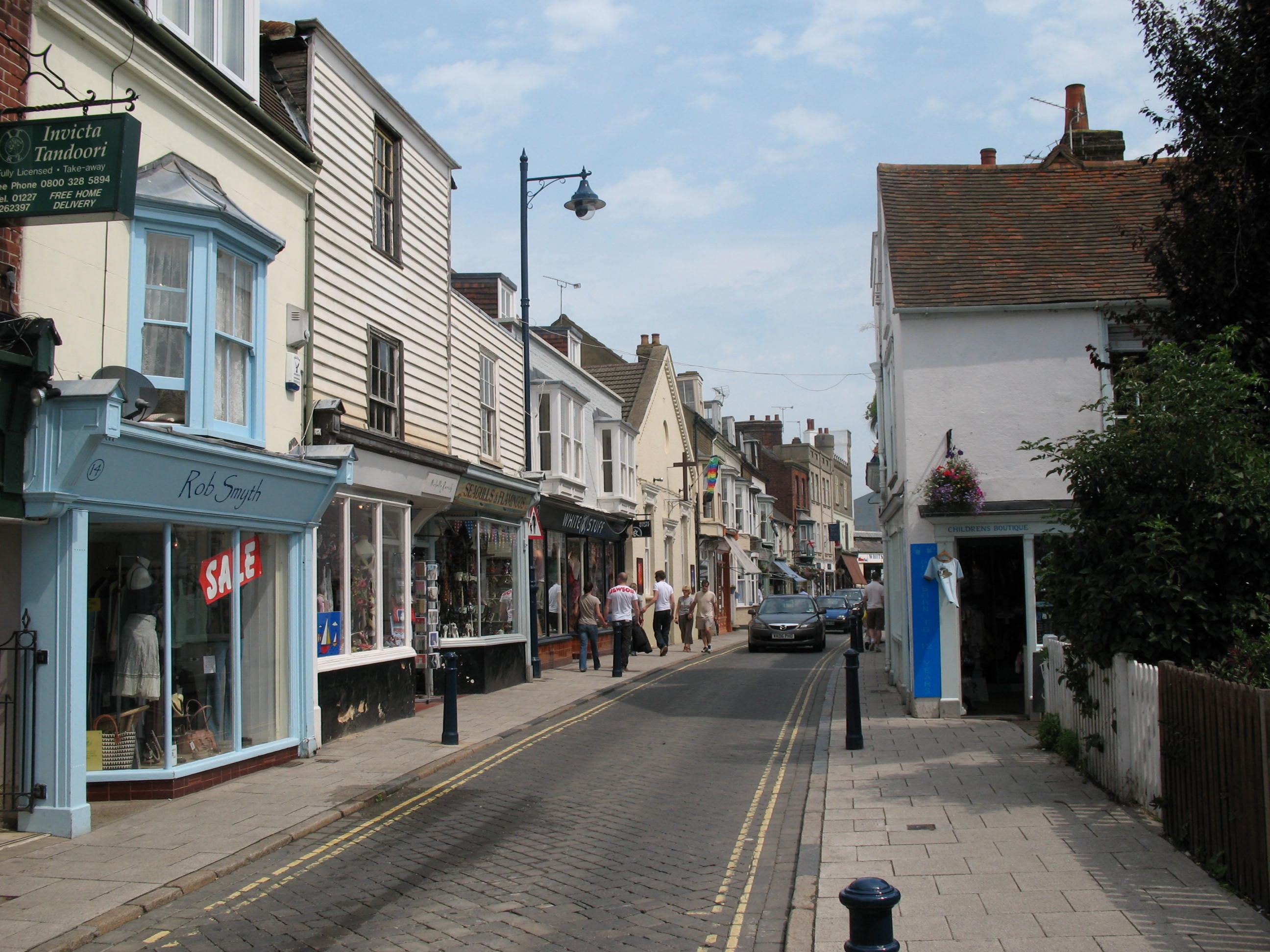 Cobbled Street in Whitstable, Kent.